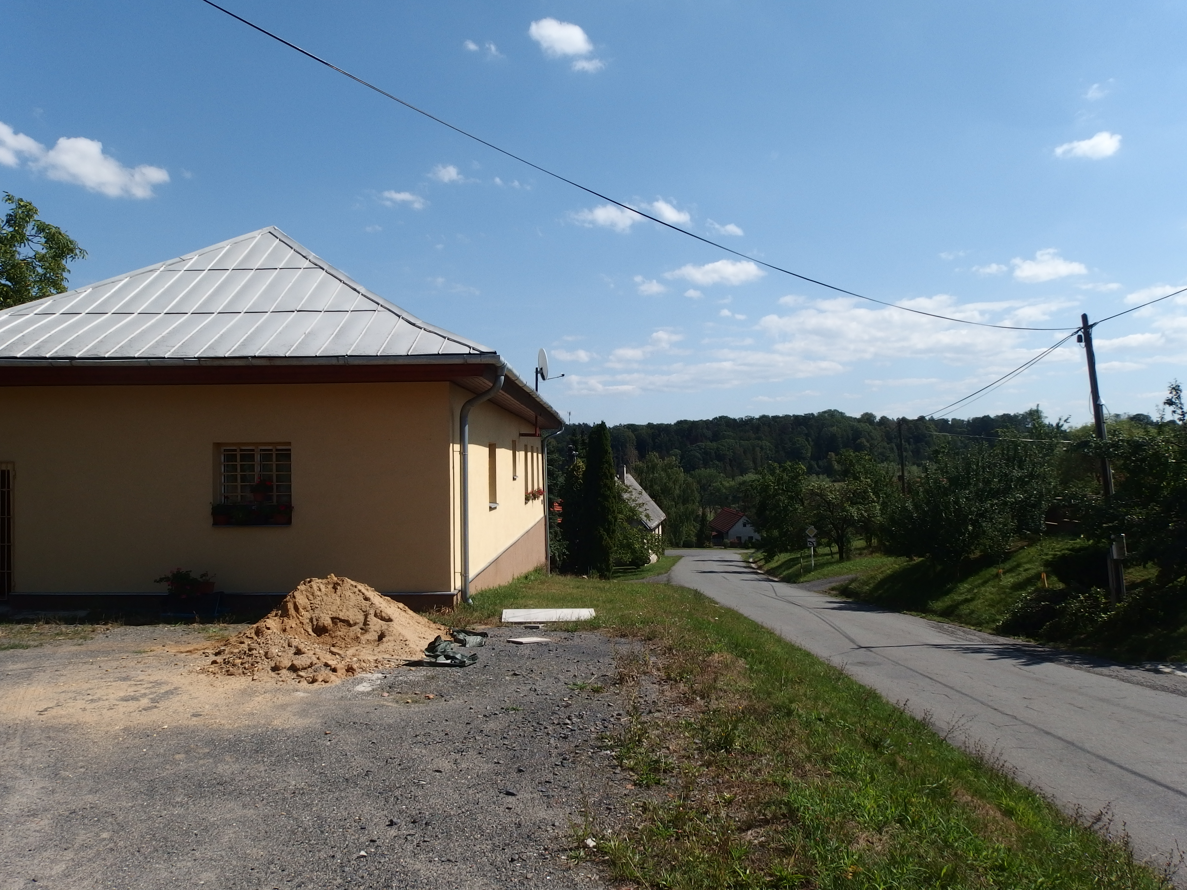 Starý Jičín, Nový Jičín District, Czech Republic, part Heřmanice.